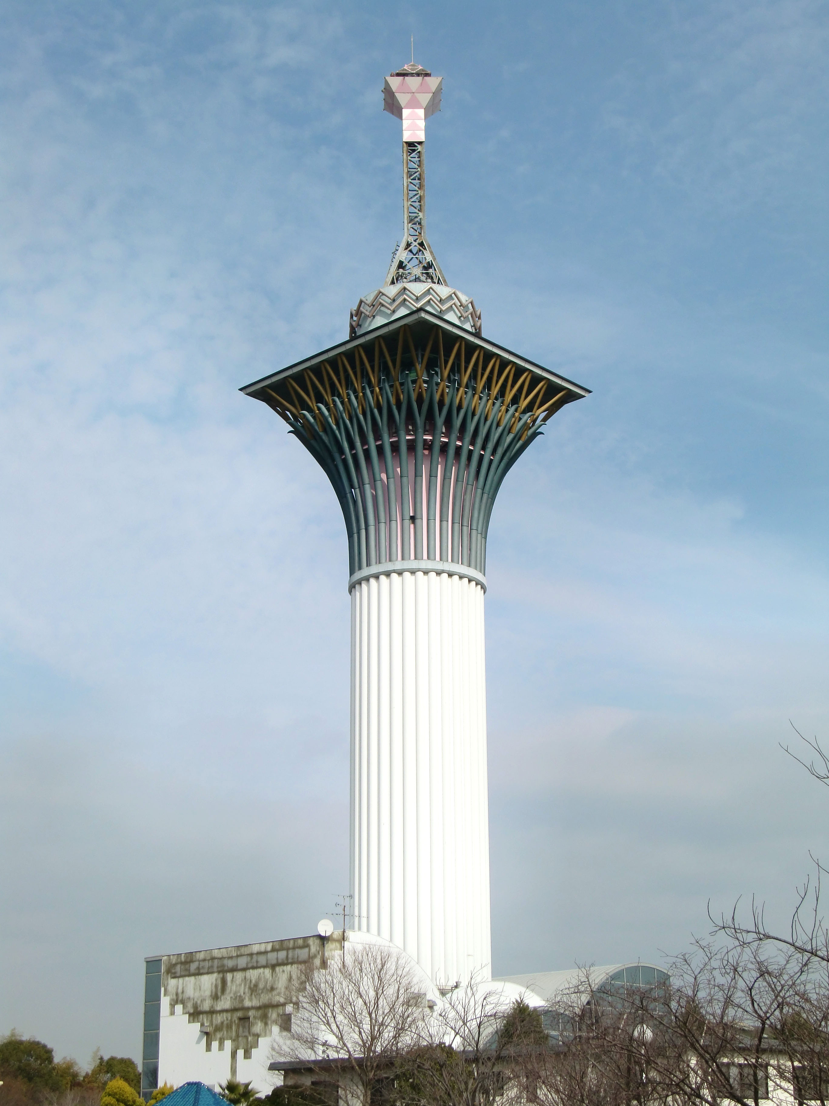 Statue of Life, 2-163 Ryokuchi-koen Tsurumi-ku Osaka-City OSAKA Japan.